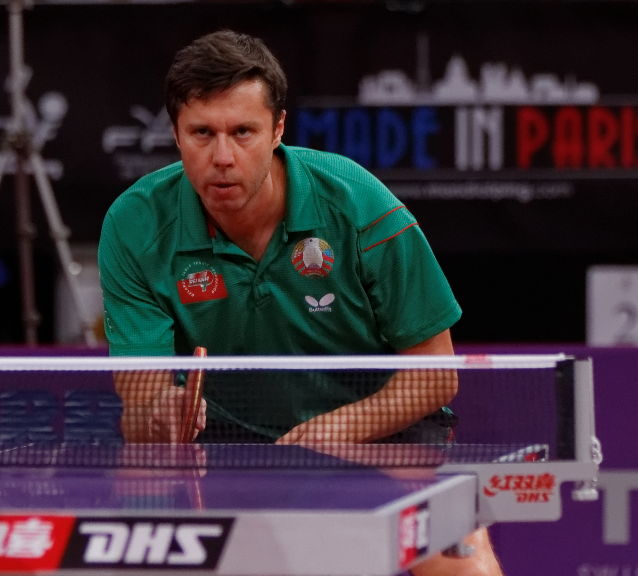 2013 World Table Tennis Championships, Paris. Men's Singles Round 4. Kenta Matsudaira vs Vladimir Samsonov.